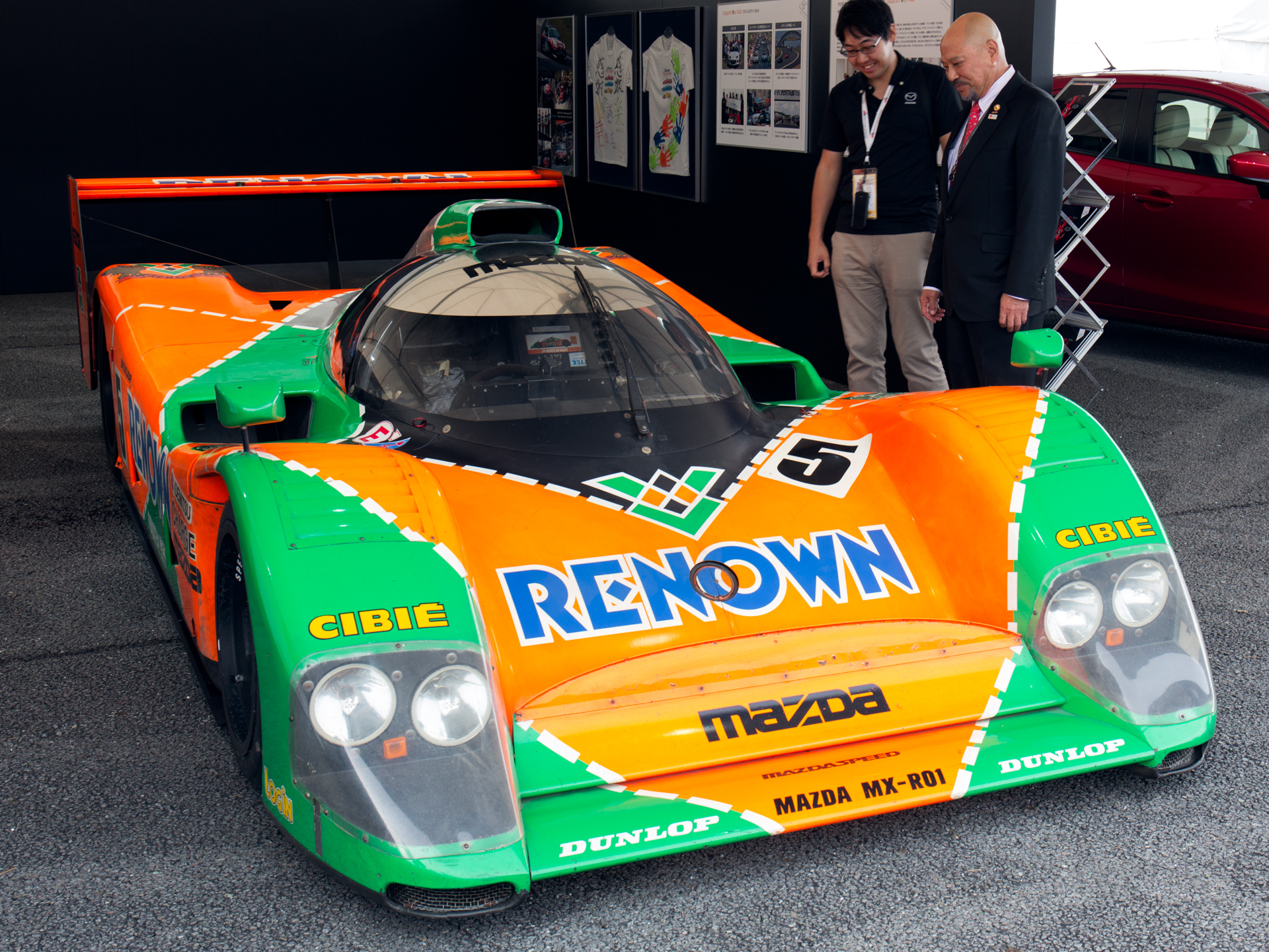 FIA World Endurance Championship 2014 Rd.5 6 Hours of Fuji: Mazda MXR-01 (Mazdaspeed) and Yojiro Terada (right)